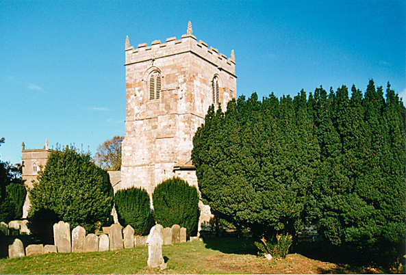 Alvingham churchyard. Alvingham contains two churches in the one churchyard, scarcely twenty yards apart. St Mary's with its stubby tower (in the background) was the parish church of North Cockerington. It is now in the care of the Churches Conservation Trust. St Adelwold's, (foreground) the parish church of Alvingham has the large stately tower.